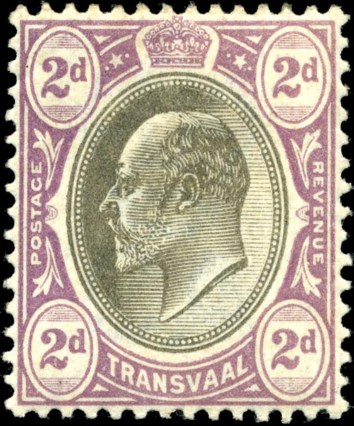 Transvaal 2p stamp of 1902